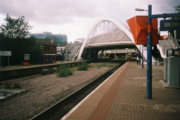 Wembley Stadium railway station